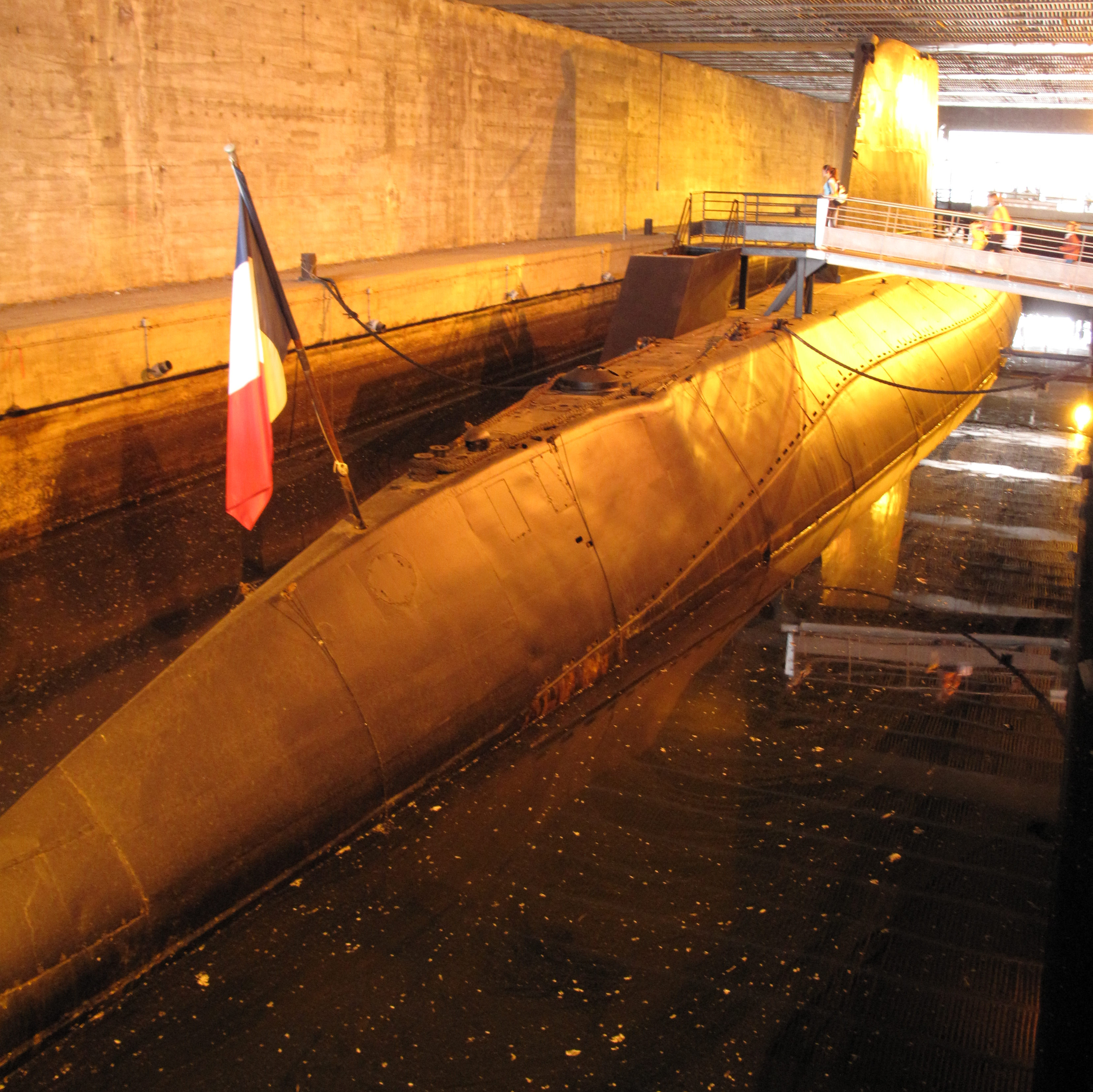 Submarine Espadon (S637) as museum ship in Saint-Nazaire